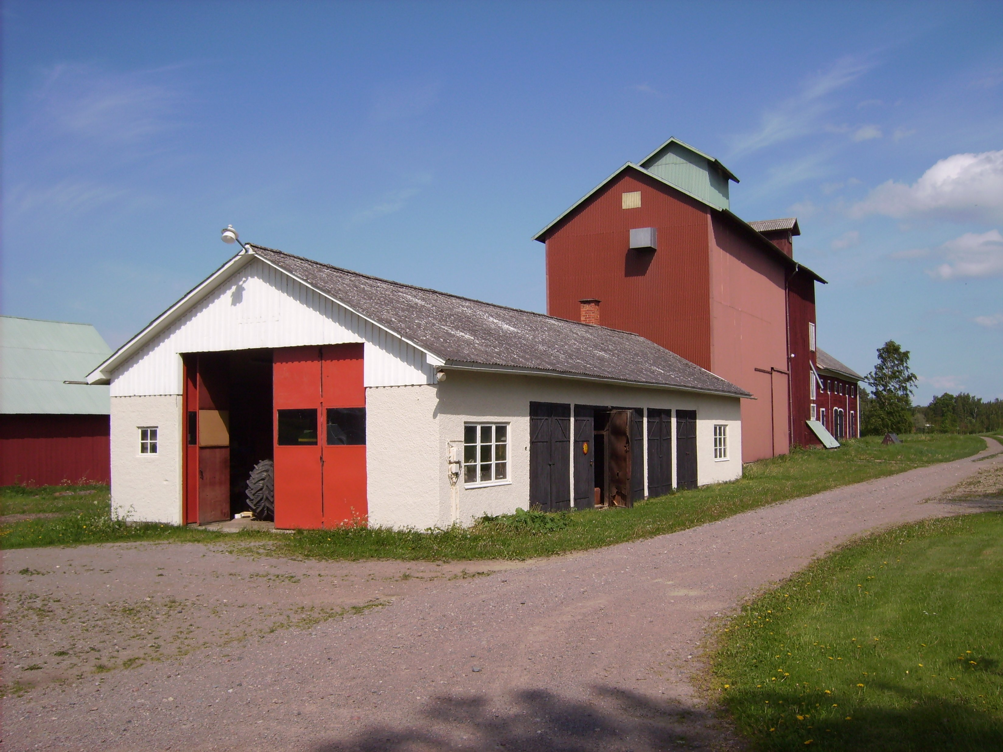 The mansion Linghems gård are named the first time 1315. The urban district Linghem in Linköping have been built near the big farm.